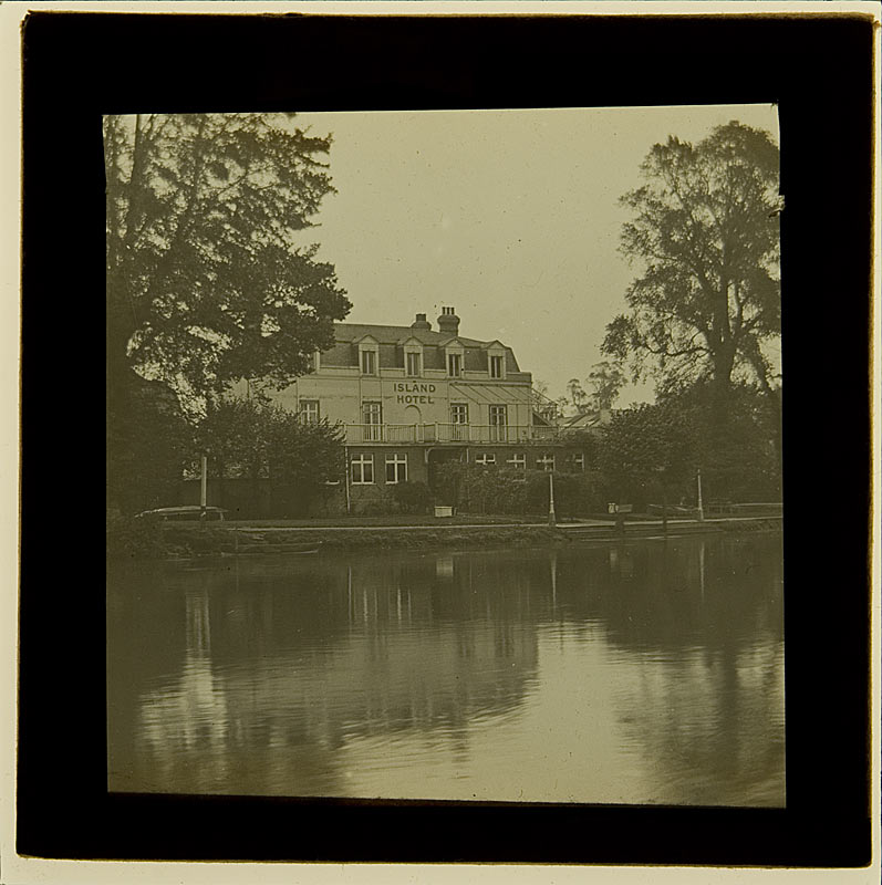 Famous venue for Rolling Stones concerts, now long gone. This is a 3.25" (external) magic lantern slide. I would guess it dates from around 1910-20, but would welcome any thoughts. ref. c060726018 Visit my vintage photo identification site at